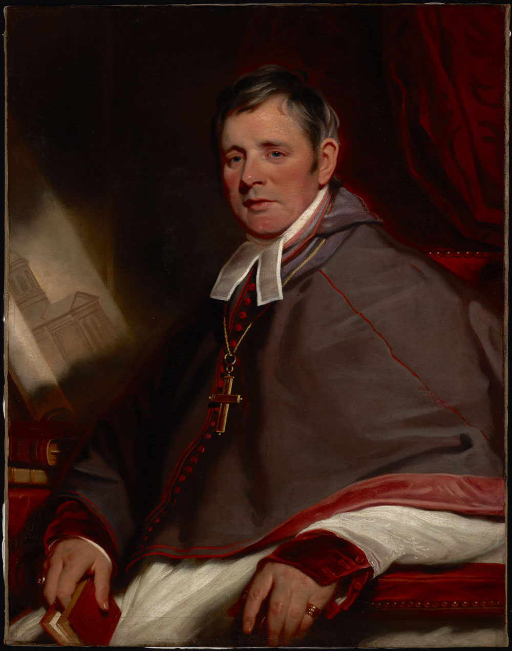 A portrait painting of Alexander MacDonell, the first Catholic bishop of Upper Canada